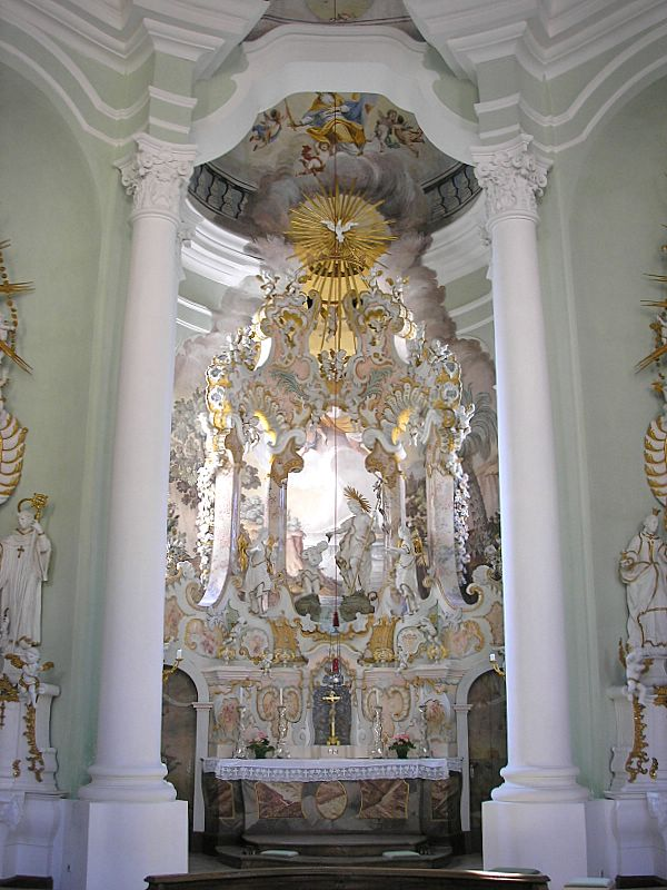 St. Johannes am Vorderanger (Landsberg am Lech, Upper Bavaria, Germany). View into the choir.